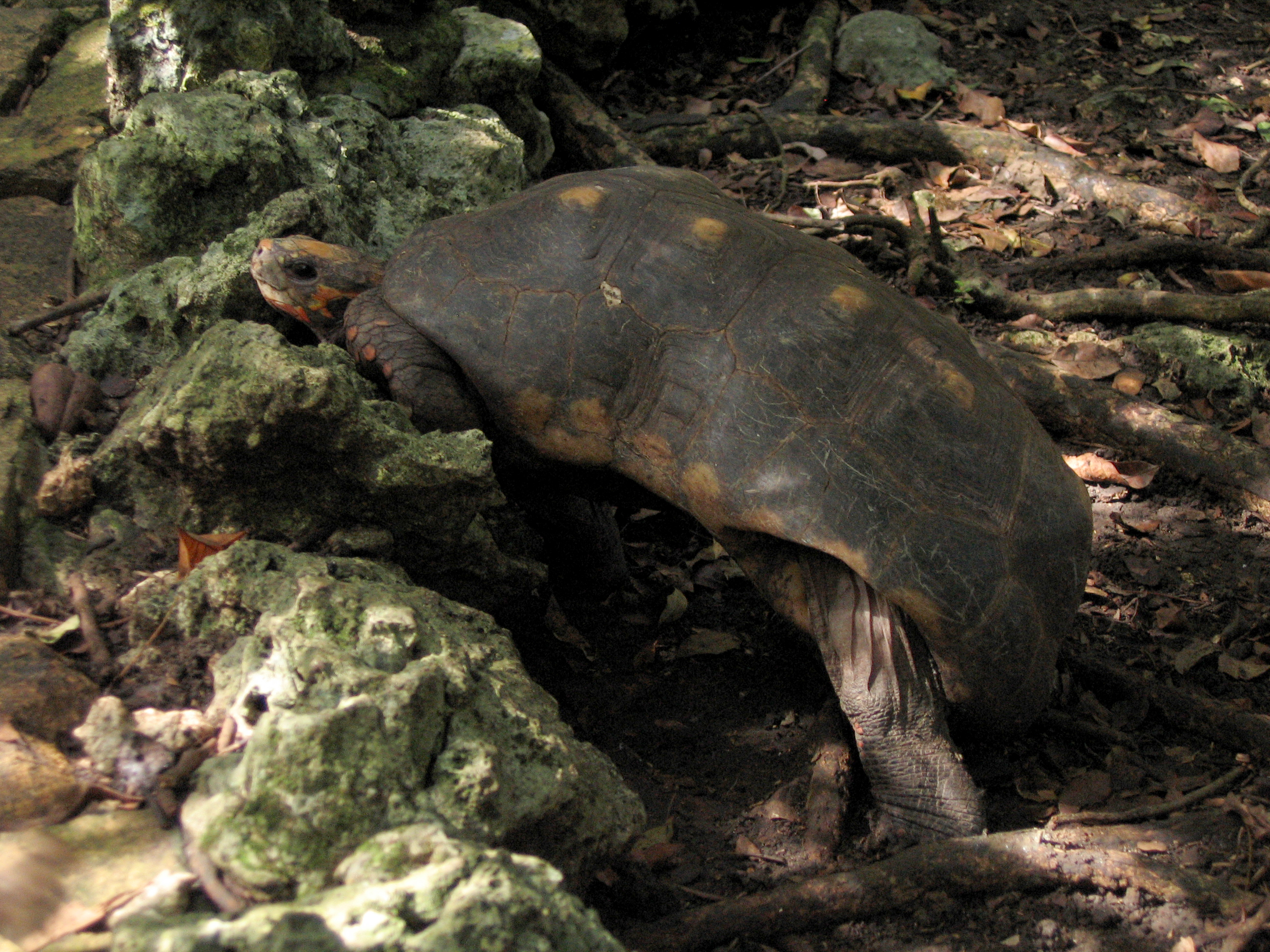 Red-footed Tortoise at the Barbados Wildlife Reserve, Saint Peter Parish, Barbados.